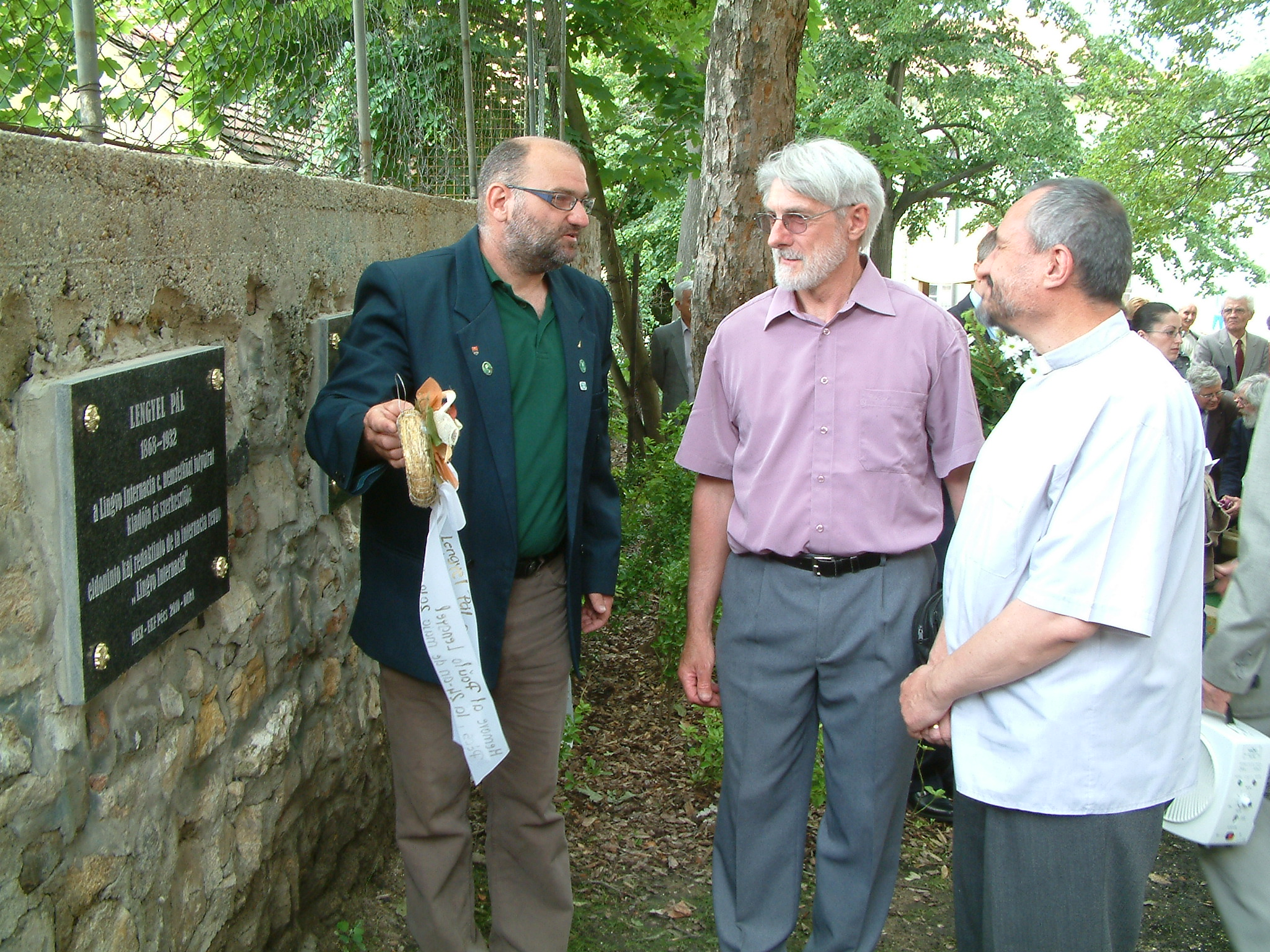 Kirsch János en urbo Pécs 2010 kronumado.